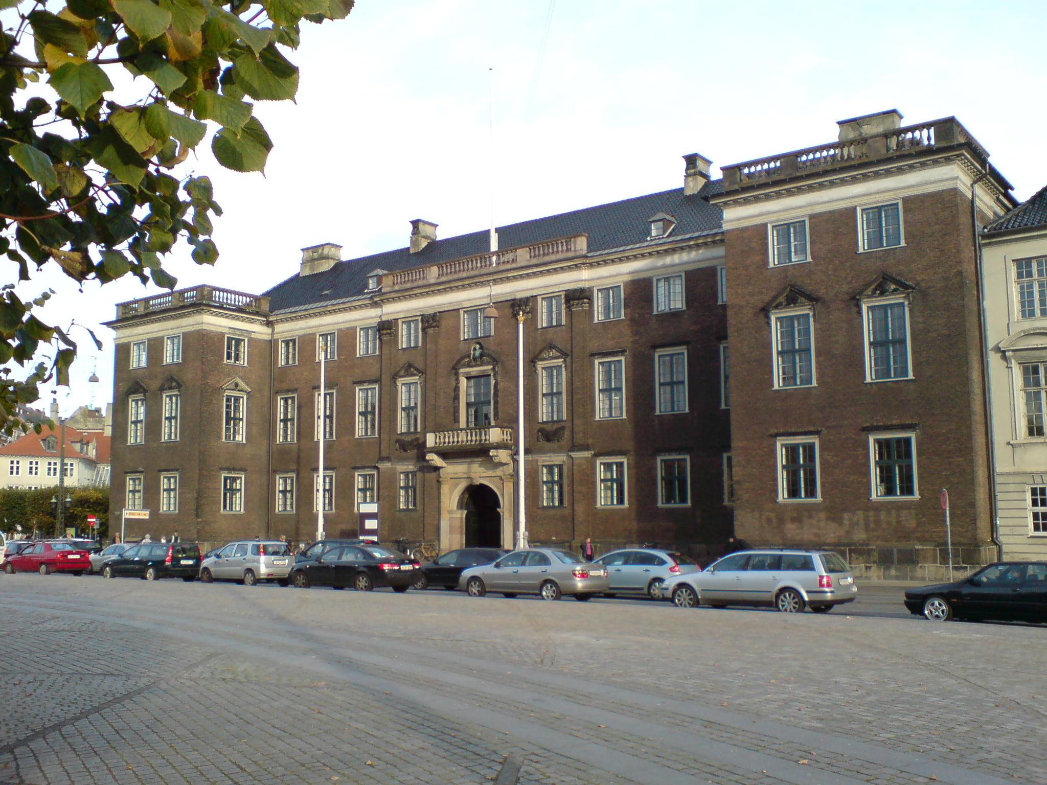 Description=Charlottenborg, Kopenhagen 2007 Source=myself Date=10.2007 Author=PodracerHH 17:15, 22 October 2007 (UTC)